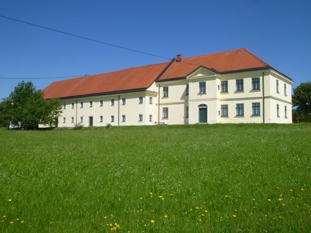 The former station of the horse-drawn railway in Kerschbaum